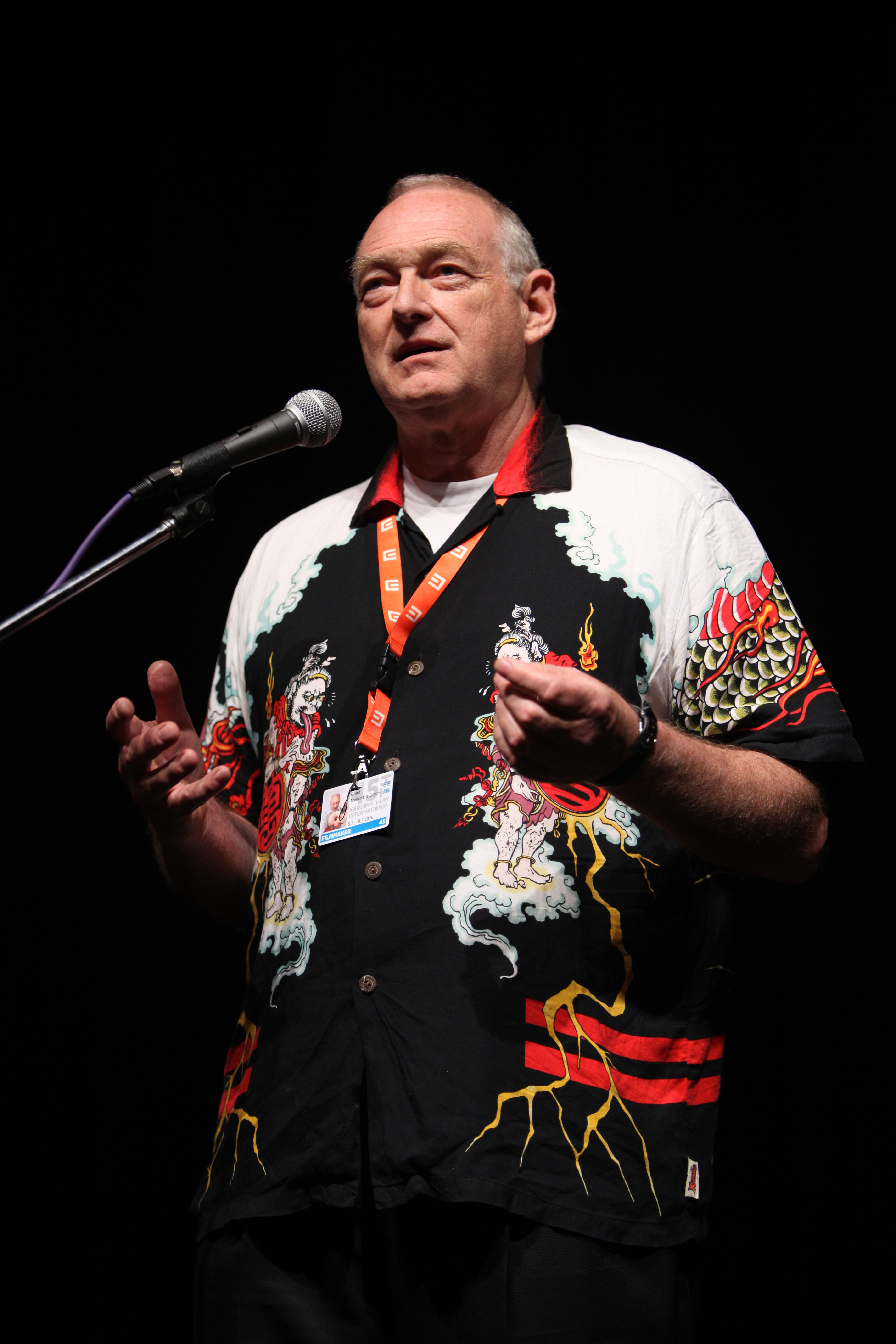 English film director Brian Trenchard-Smith at 2010 Karlovy Vary International Film Festival